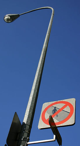 A lamppost with a "no pedestrian crossing" sign on a Singapore street.